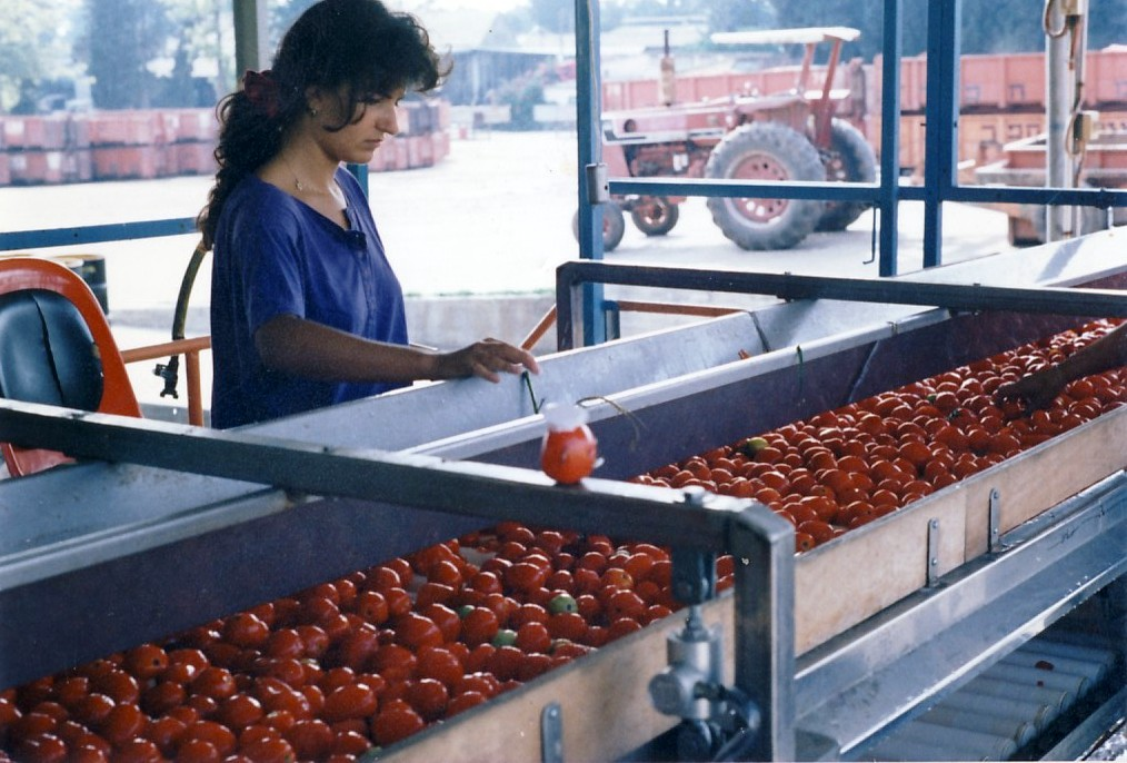 Gan-Shmuel zk8- 38, Industry in Israel